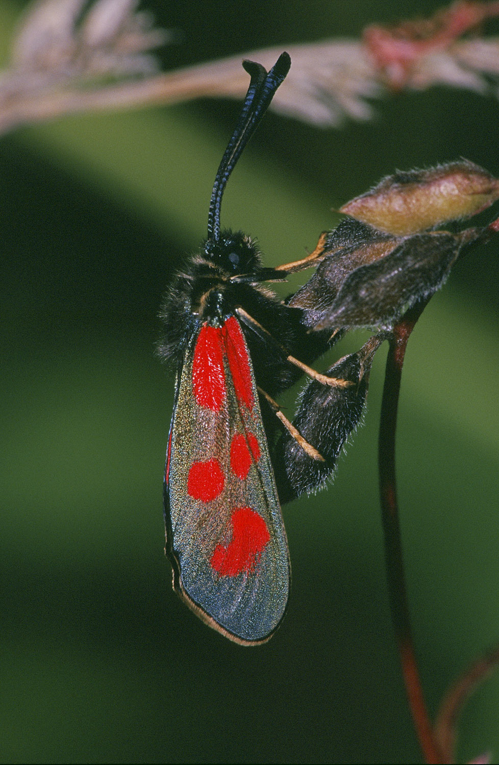 Slender Burnet, Zygaena loti (DENIS & SCHIFFERMÜLLER, 1775); Many thanks to Jürgen Rodeland from for determination!